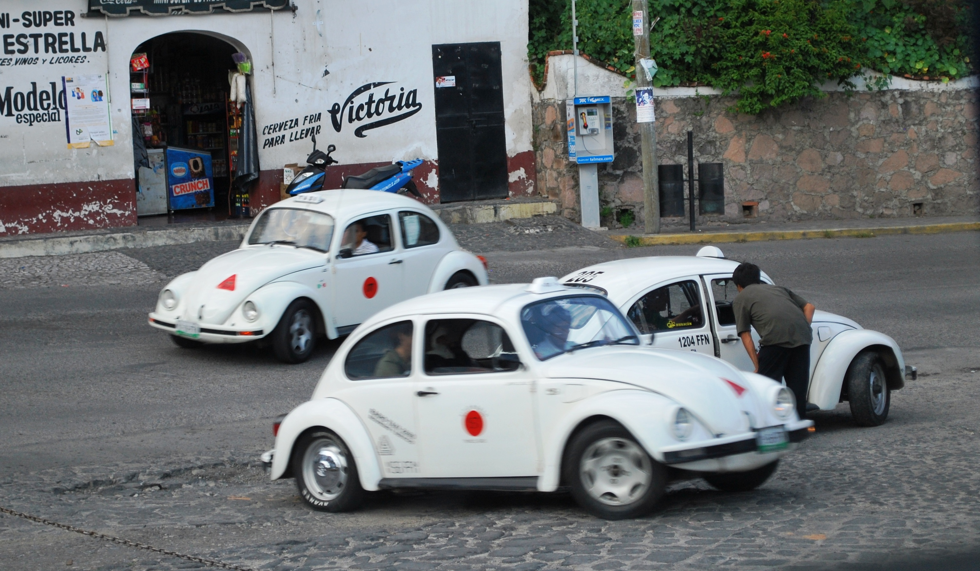 VW bug taxis in Taxco de Alarcón, Guerrero, Mexico